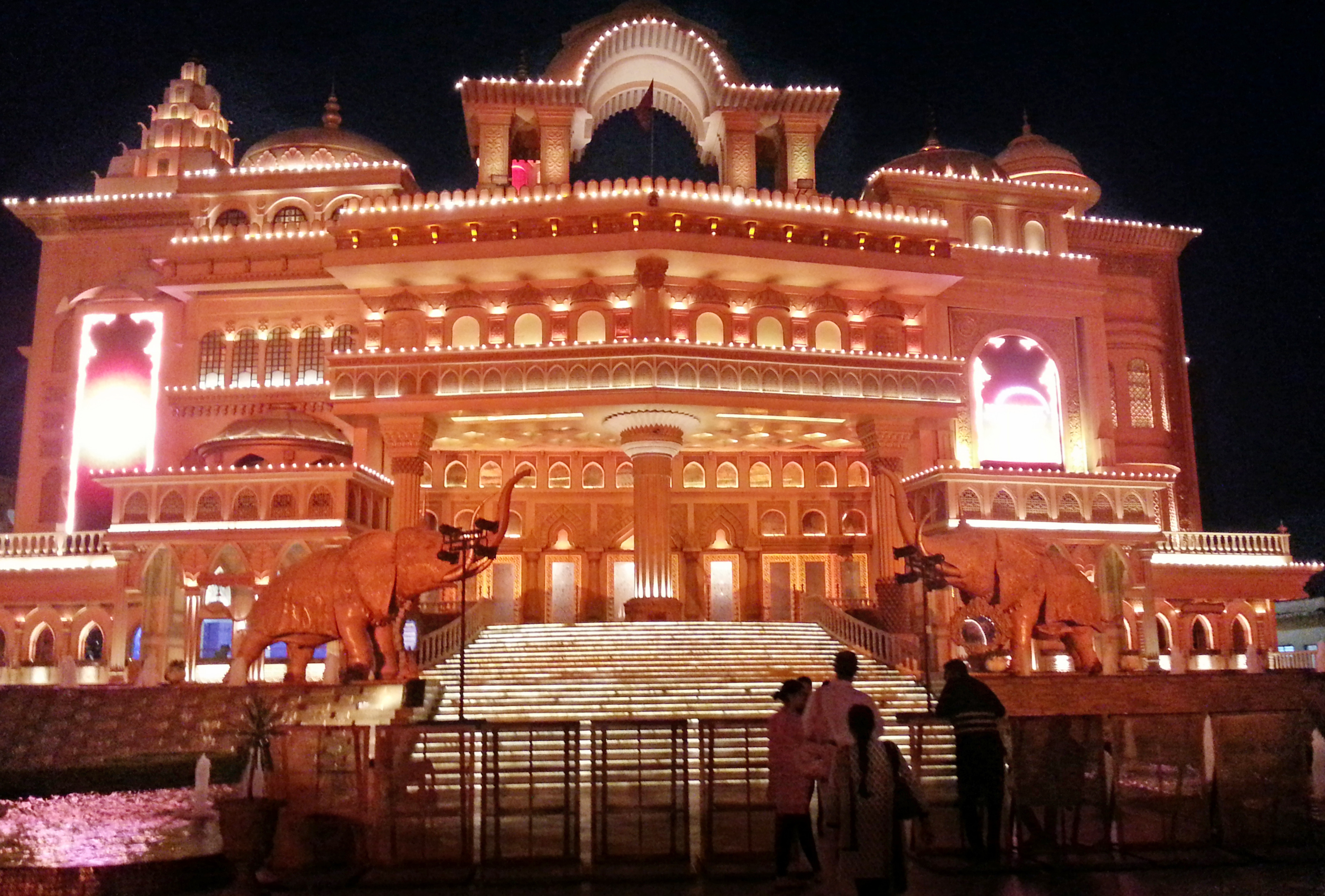 Kingdom of Dreams auditorium, Nautanki Mahal, night view, Gurgaon.